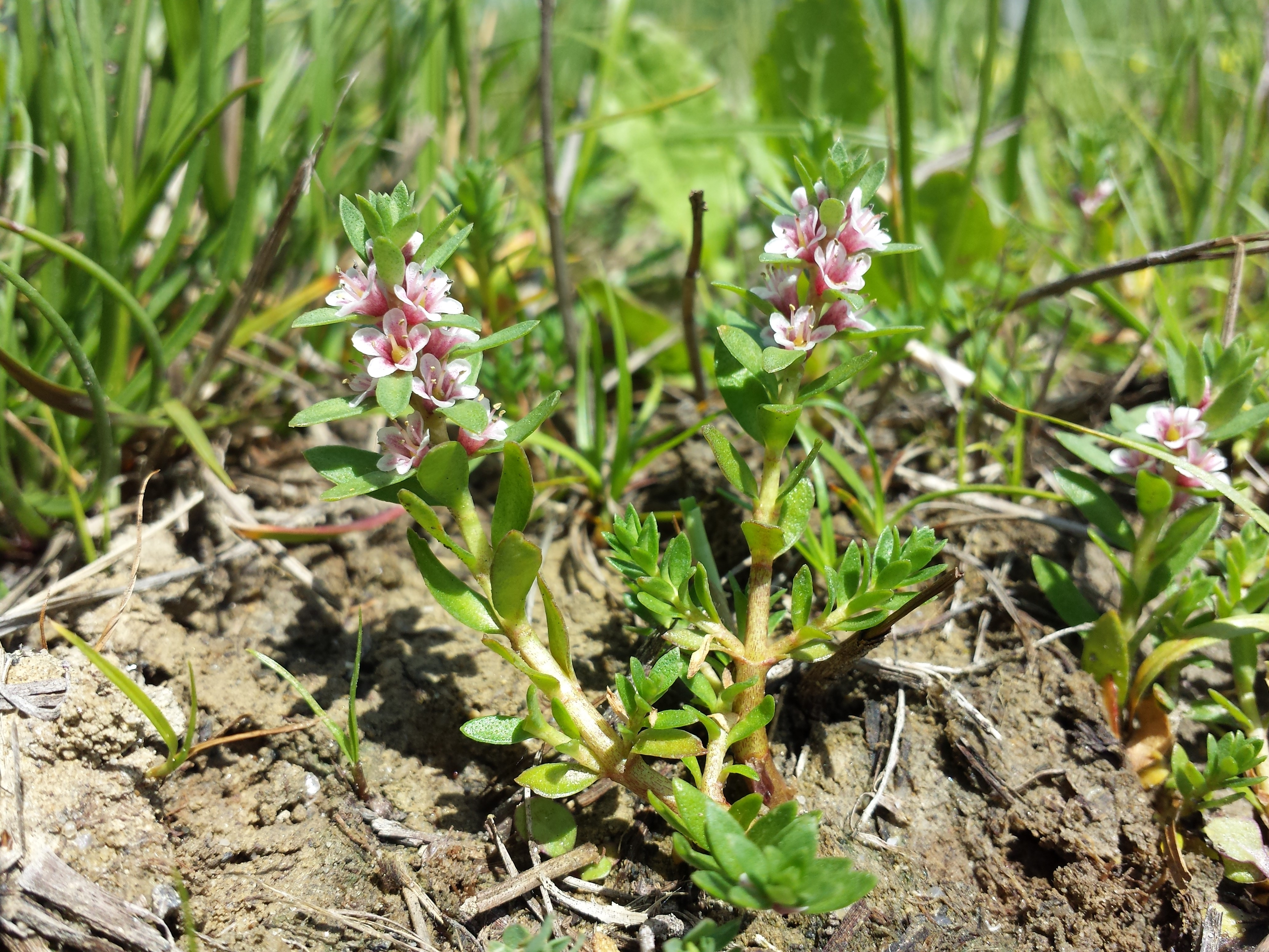 Habitus Taxonym: Glaux maritima ss Fischer et al. EfÖLS 2008 ISBN 978-3-85474-187-9 Location: nature reserve Zwingendorfer Glaubersalzböden - Hintausacker, district Mistelbach, Lower Austria - ca. 185 m a.s.l. Habitat: salt meadow This media shows the nature reserve in Lower Austria with the ID 25.